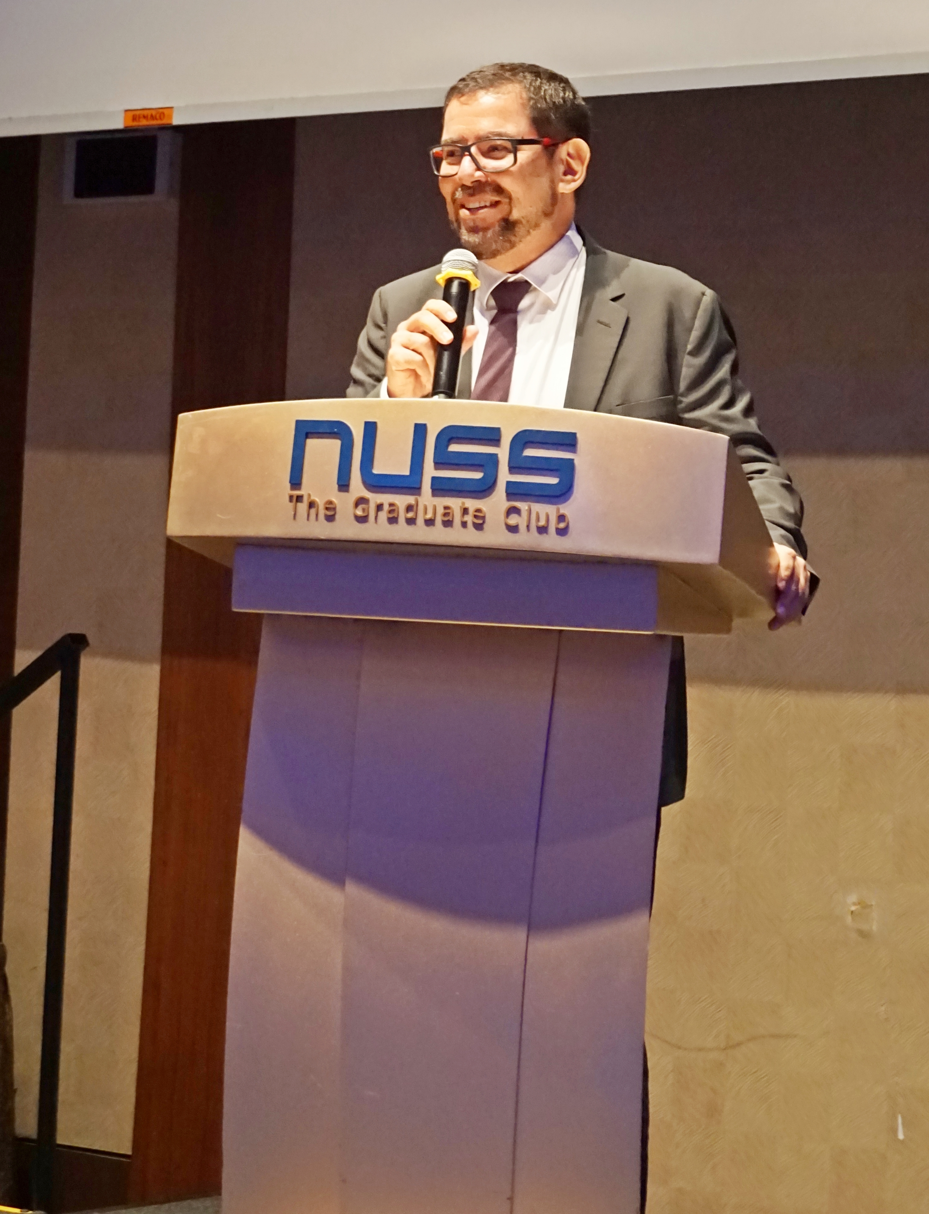 Ahdcn